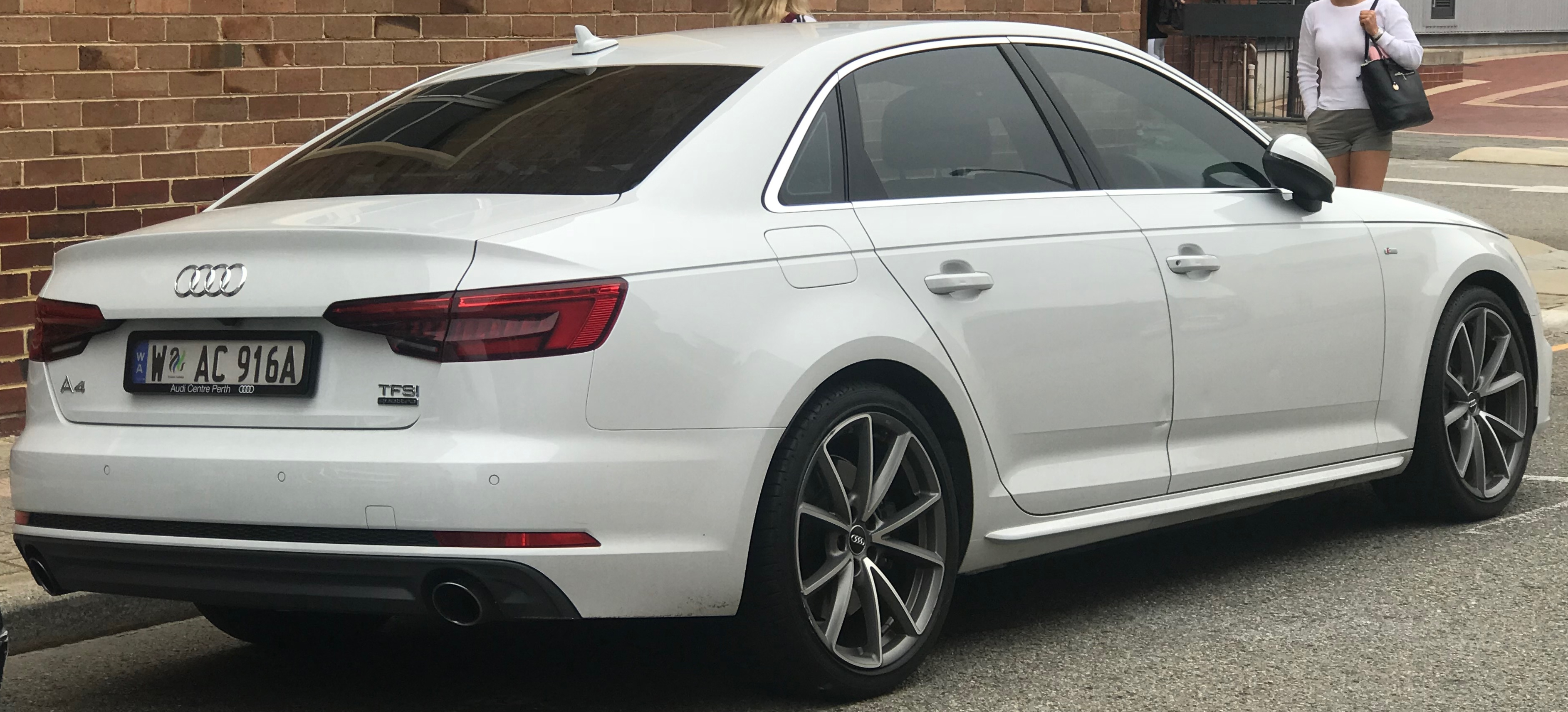 2017 Audi A4 (8W) S-Line quattro sedan. Photographed in Fremantle, Western Australia, Australia.